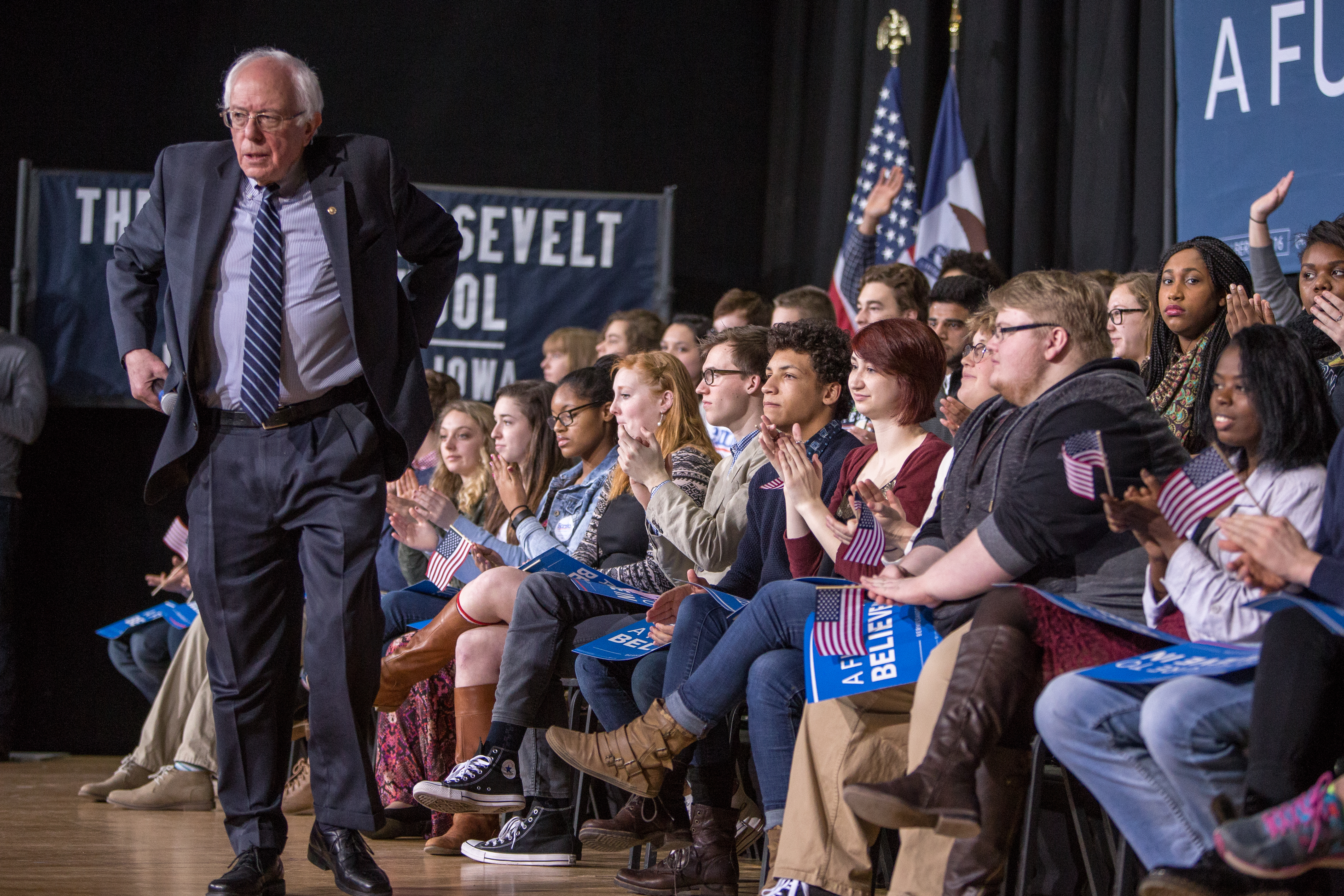 Photos taken for work of U.S. Senator and Presidential candidate Bernie Sanders speaking to a crowd of nearly 1,600 students at Roosevelt High School in Des Moines, IA on Thursday, January 28, 2016.